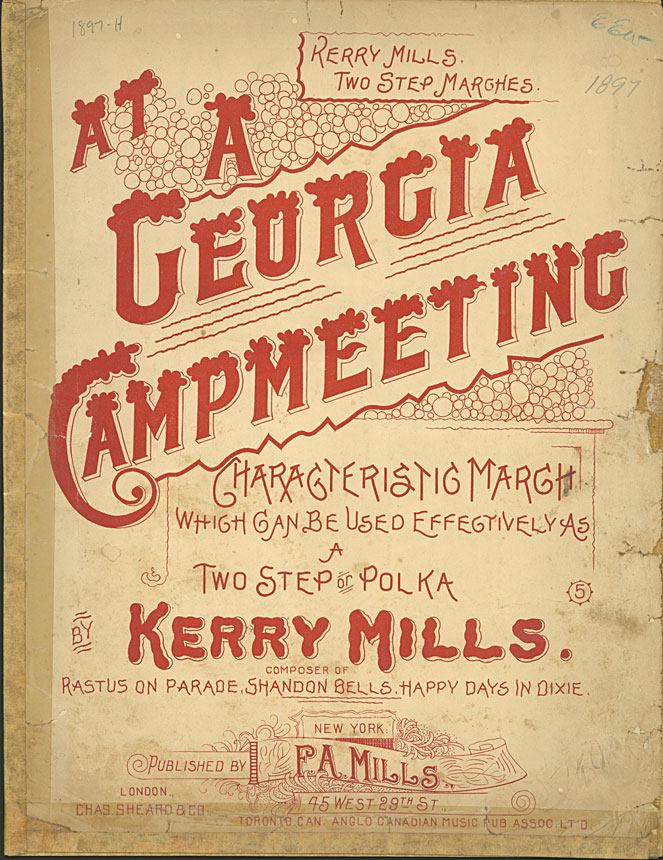 "At A Georgia Campmeeting". Kerry Mills' classic cakewalk, sheet music cover, 1897